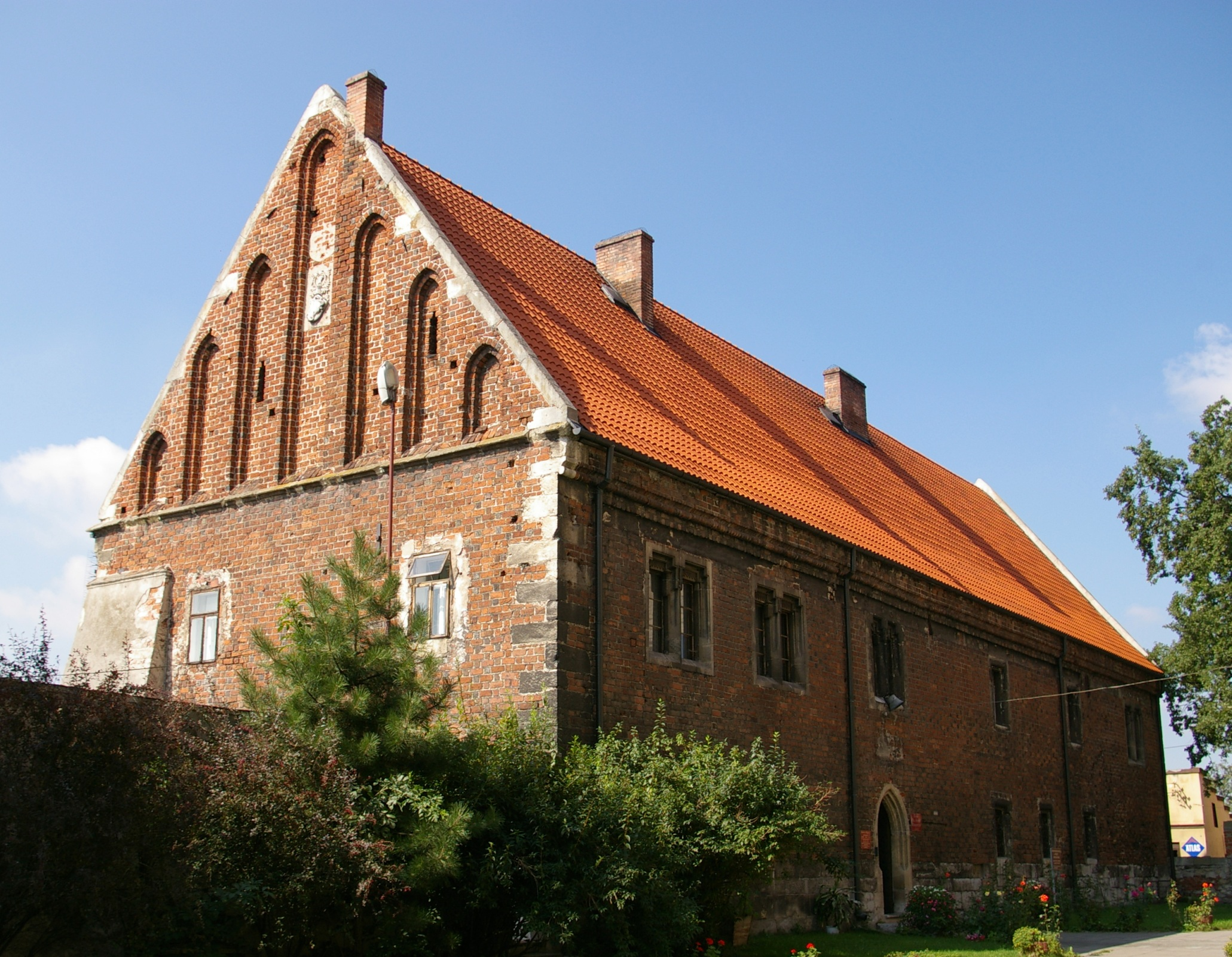 The presbytery called Długosz house in Wiślica, Poland